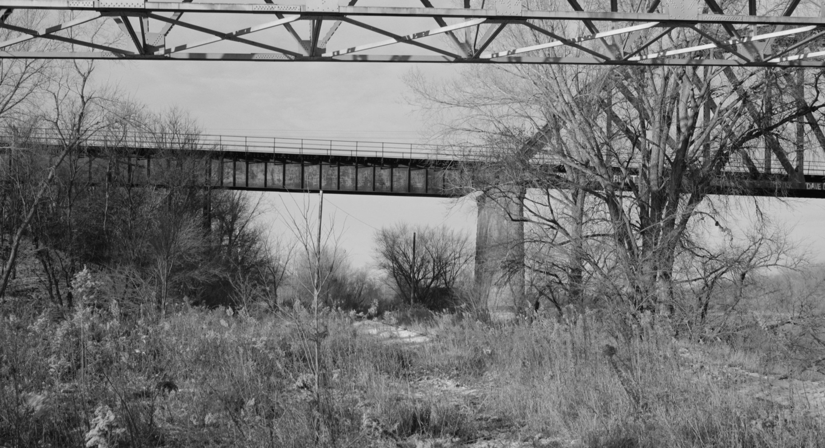 West Side of Blair Railroad Bridge, behind Abraham Lincoln Memorial Bridge